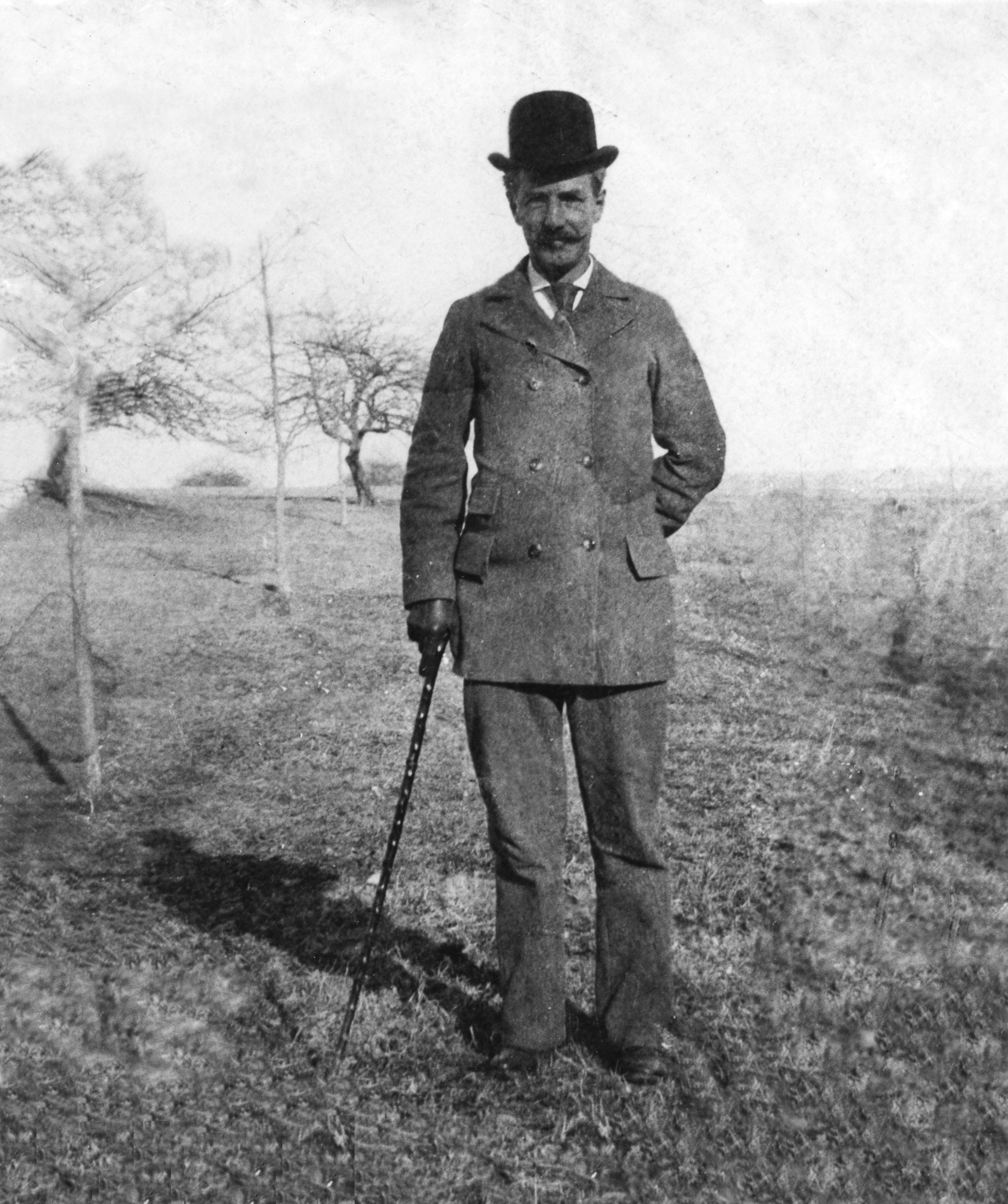 Founder of Pomfret School and first Headmaster, c.1984